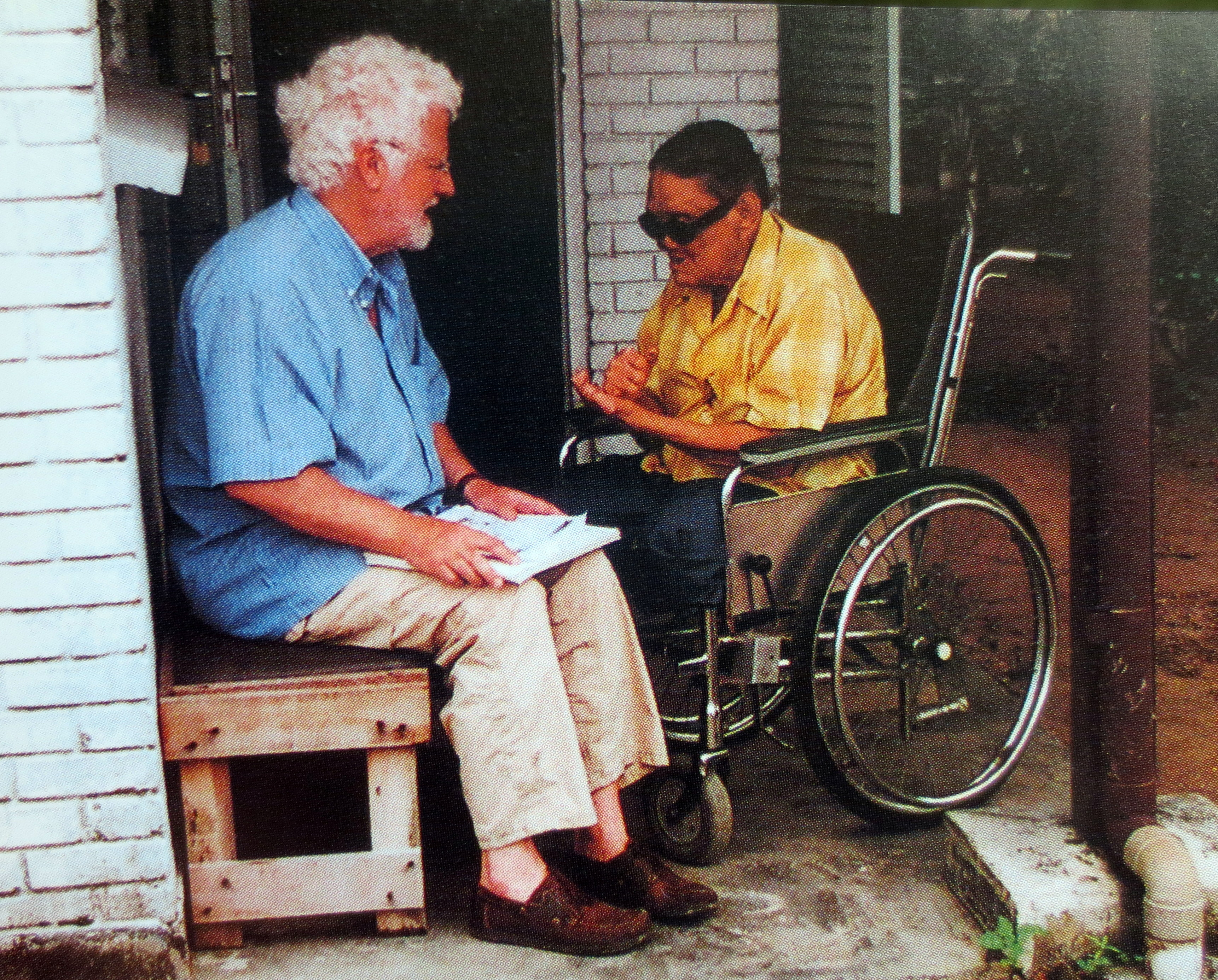 Humbert Willems (r) and dutch artist Jan Kruis (l)